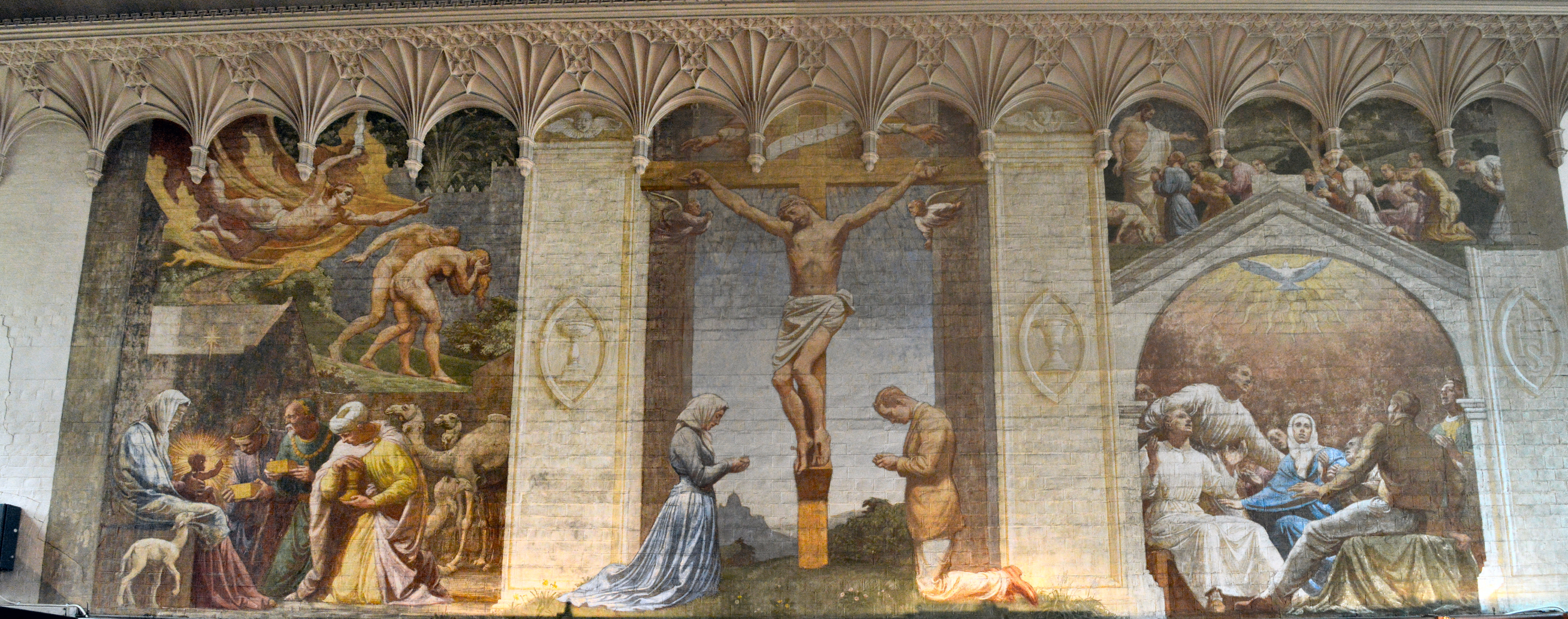 Fulham Palace, The Tait Chapel North wall painting, by Brian Thomas and students from Byam Shaw School of Art (1953). The Fall (Adam) with the nativity below. Atonement with the crucifixion. The Last Supper with the gift of the Holy Spirit.